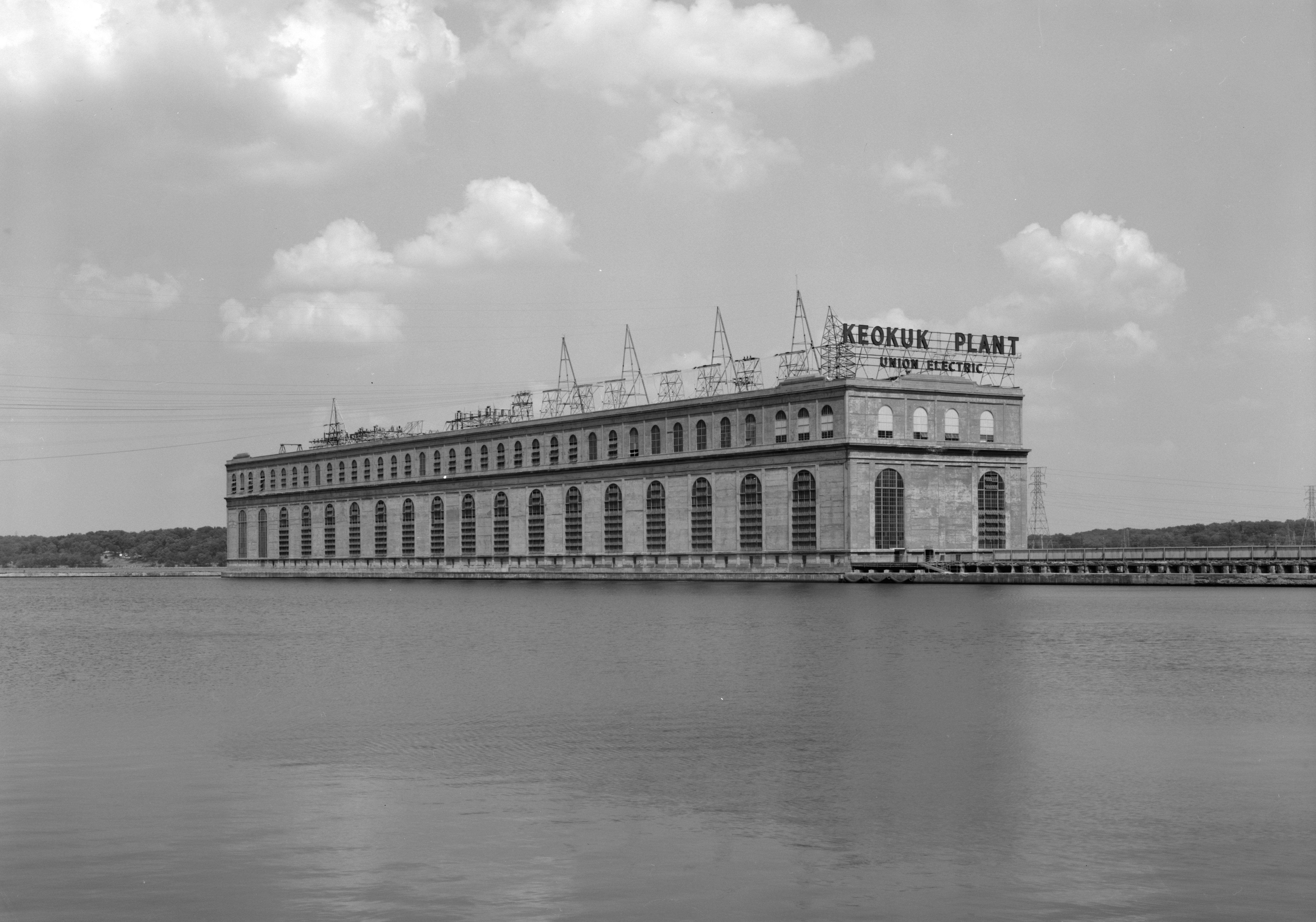 Power house at Mississippi River Lock and Dam No. 19, Keokuk, Iowa - general view of power plant, showing south and west sides of main facade.